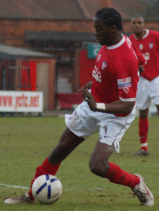 Clayton Donaldson